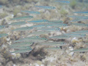 Picture of Atherina hepsetus